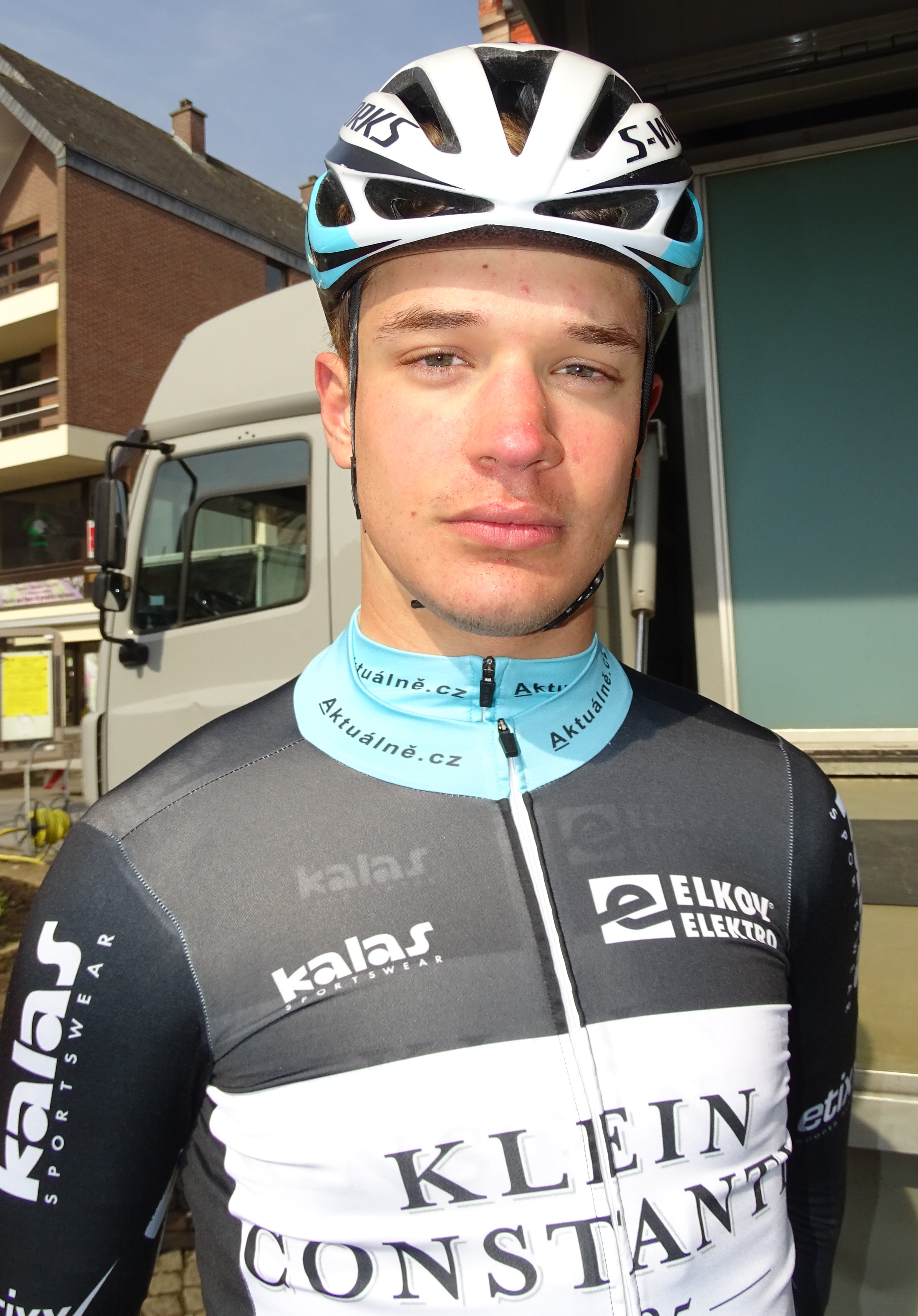 Triptyque des Monts et Châteaux 2016 Depicted person: Jonas Bokeloh Depicted team: Klein Constantia